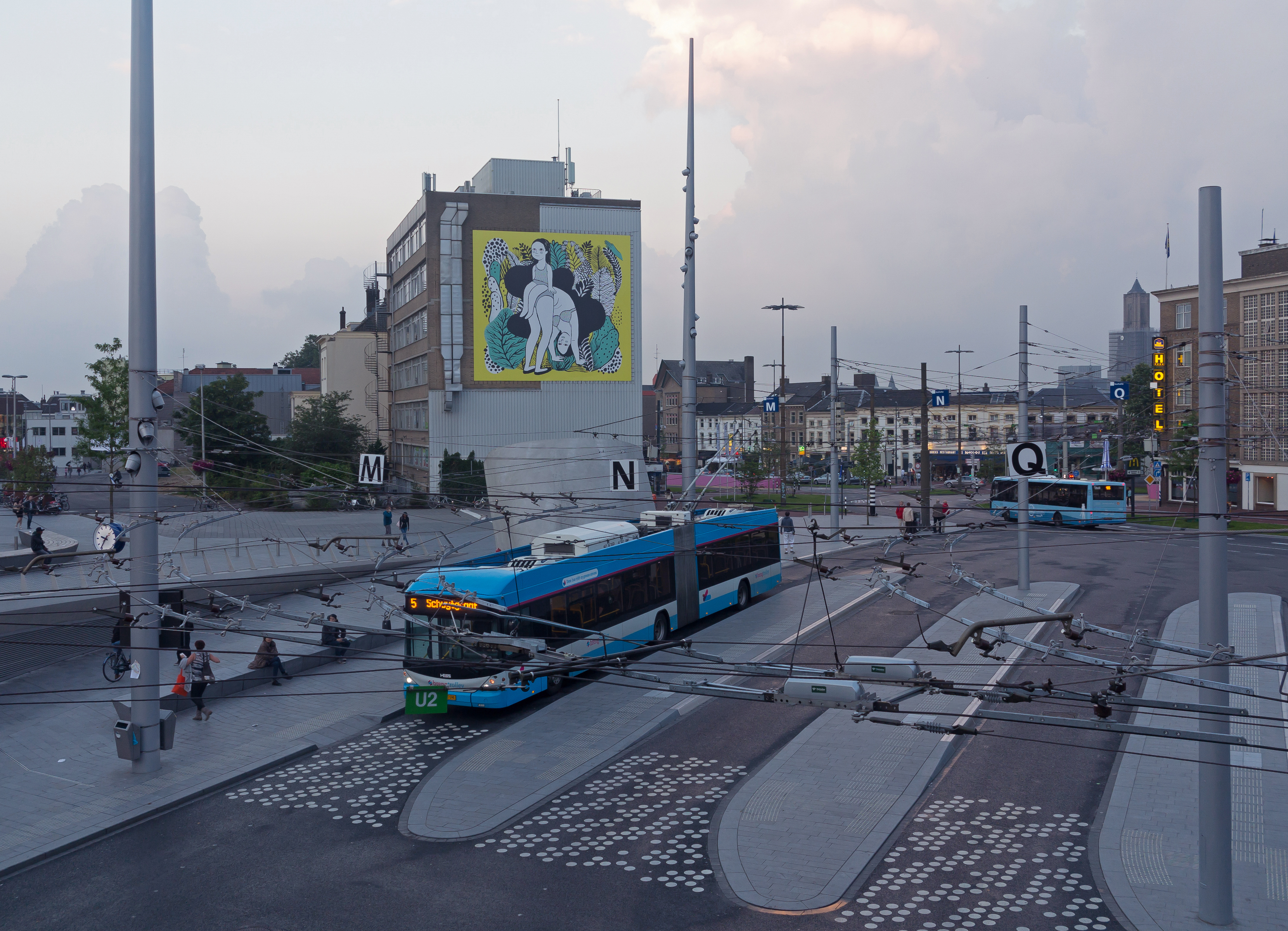 Arnhem, central trolley bus station